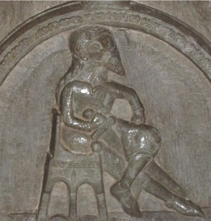 King Sweartgar I of Sweden (?) according to longstanding local traditionPlace: Heda Church, Ödeshög, Sweden